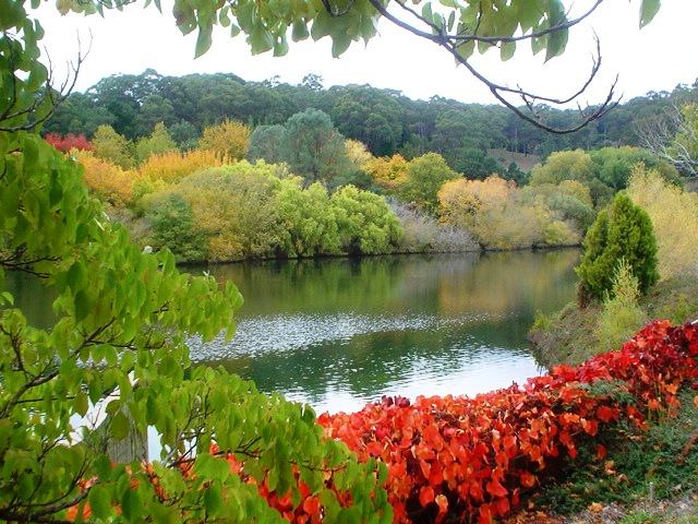 Picture of Mt Lofty Botanical Garden Lake taken April 2006